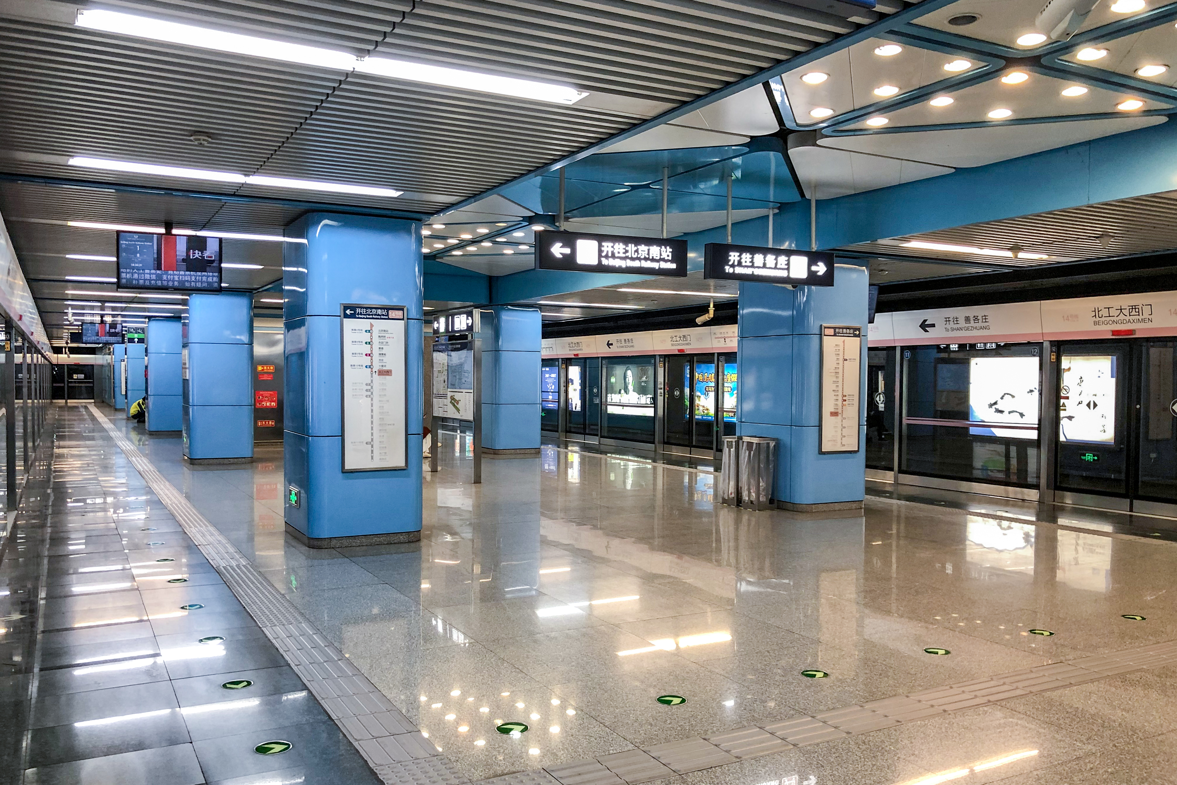 No sign of LoveLive!-ers.